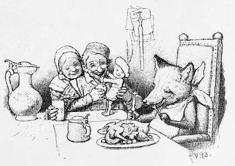 illustration of the Brothers Grimm fairy tale "Thumbling's_Travels"